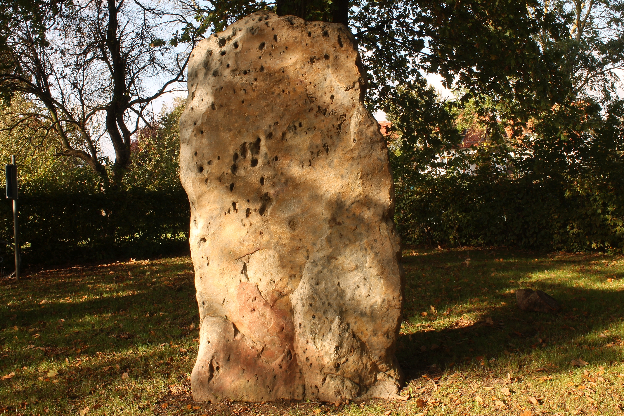 Wotanstein from the southeast, showing the marks said to be made by the devil's claws